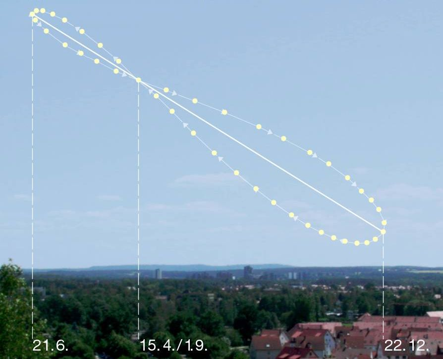 Fictional Photomontage (actual positions of the sun are just estimated and have nothing to do with the German landscape) illustrating an analemma pattern in the sky as it would appear at 9:00 AM CET at roughly 50°N, 8°E. Were one to take a photo of the sun approximately each week for a year and combine the images taken, this pattern would be visible.